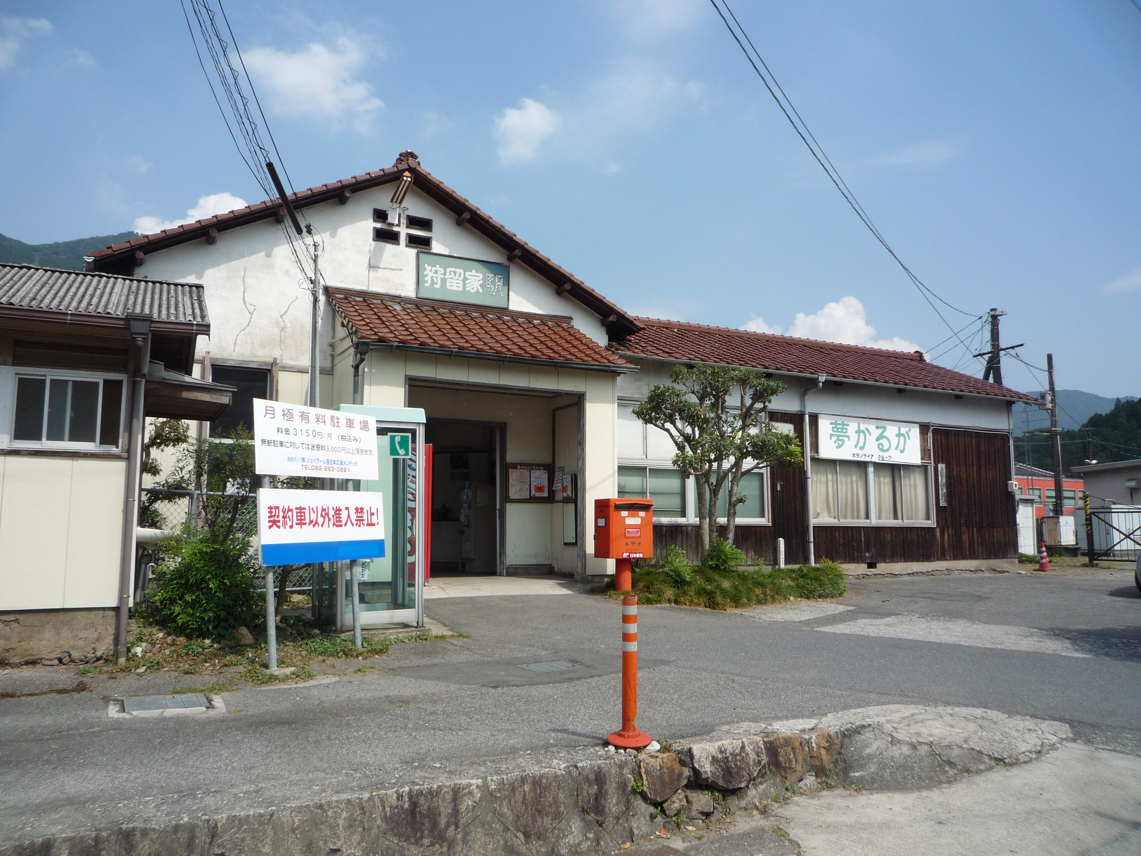 Karuga Station